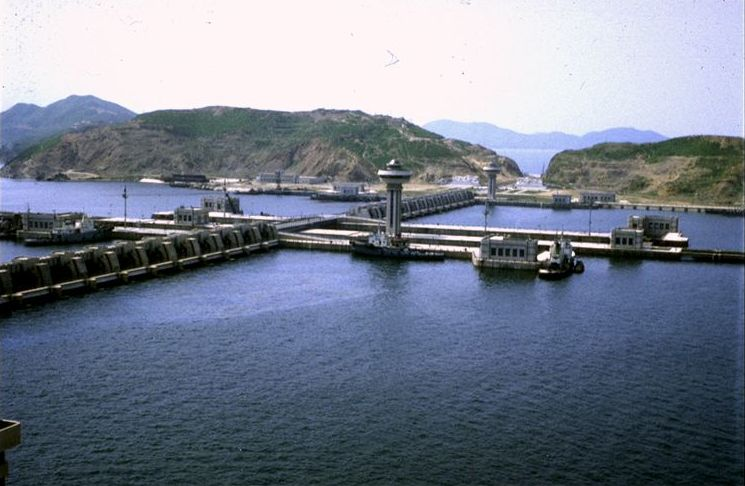 Partly view of the West Sea Barrage near Namp'o, North Korea in 1989